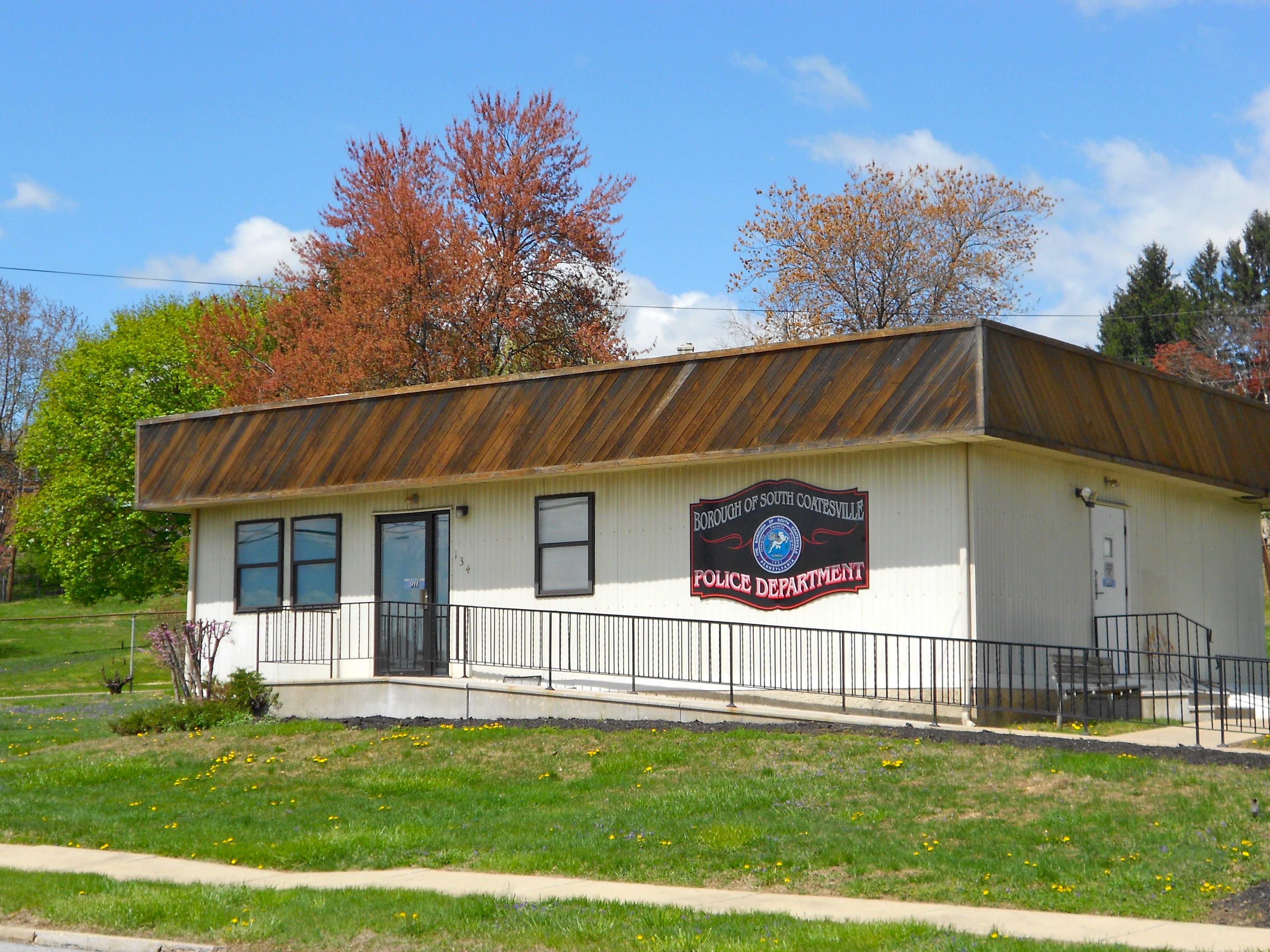 Police Department building in South Coatesville, Chester County, Pennsylvania. South Coatesville is located just south of Coatesville, PA.